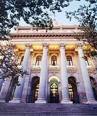 Façade of Madrid (Spain) Stock Exchange Building.